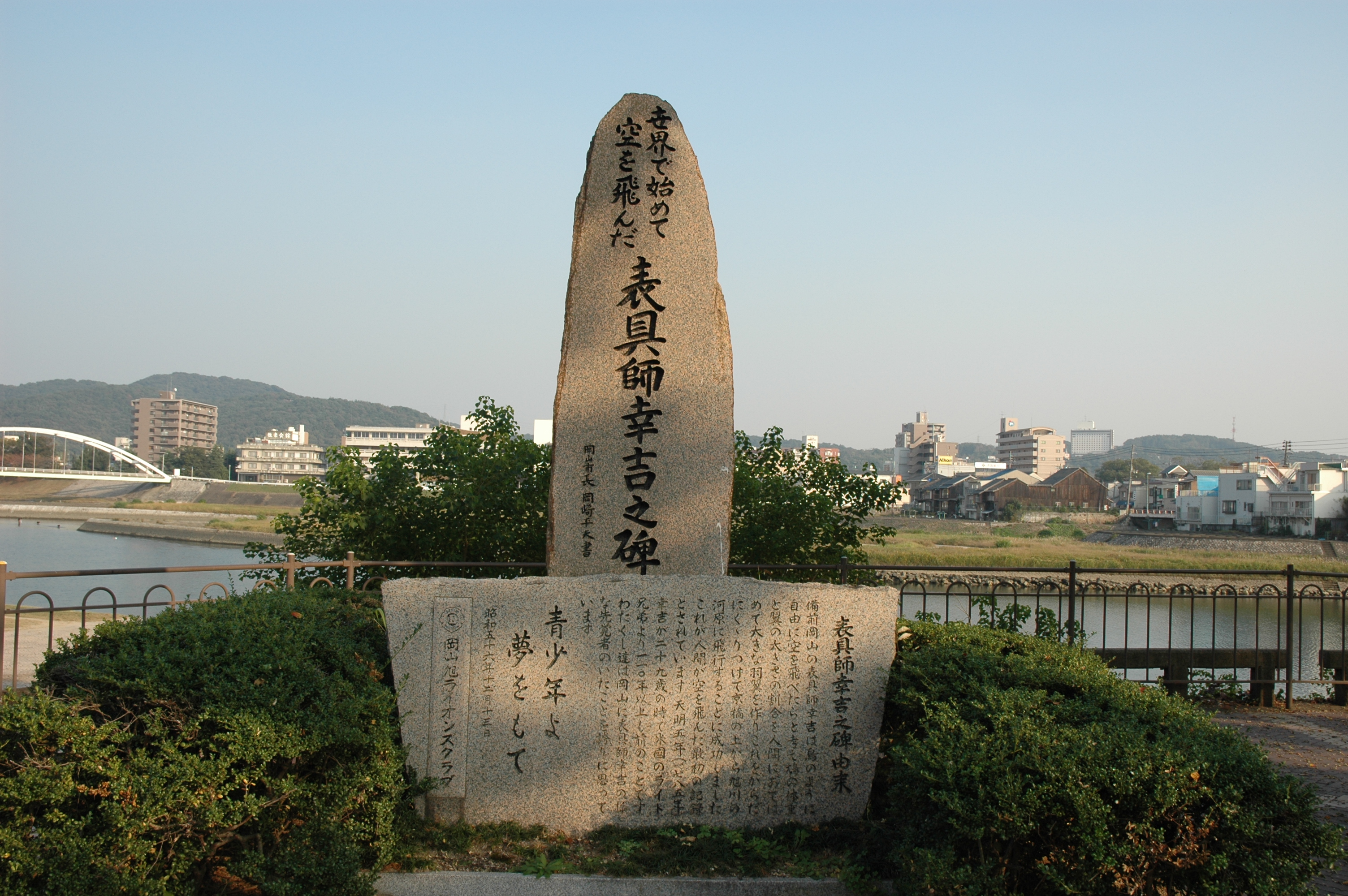 stone monument of Hyogushi Kokichi(Ukita Kokichi) at a ridge of Asahi river in Uchisange, Okayama city, Okayama, Japan.It is assumed that he glided for the first time in the sky in the world.